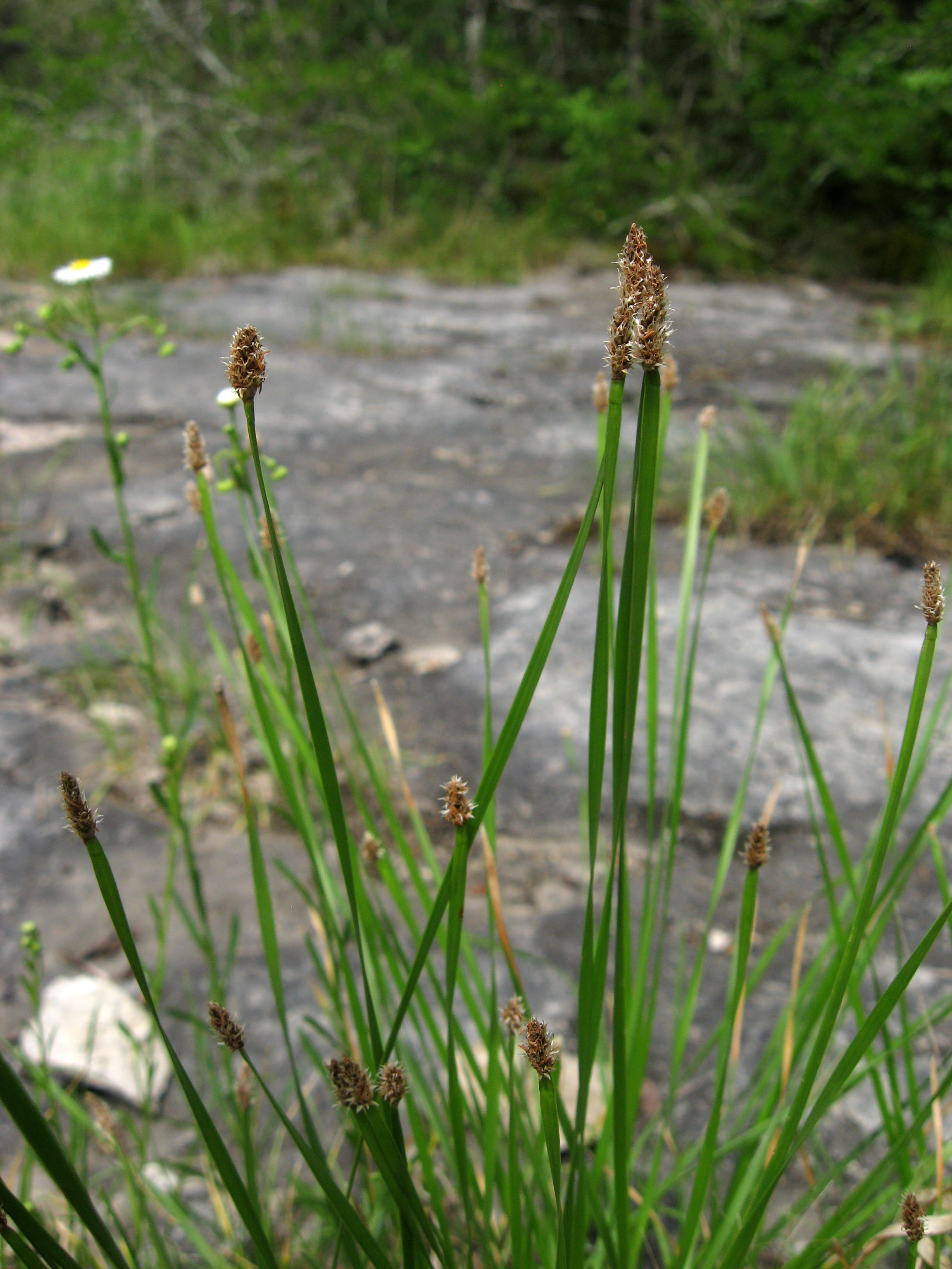 Eleocharis bifida in cedar glade in Cedars of Lebanon State Park, Wilson County, Tennessee.